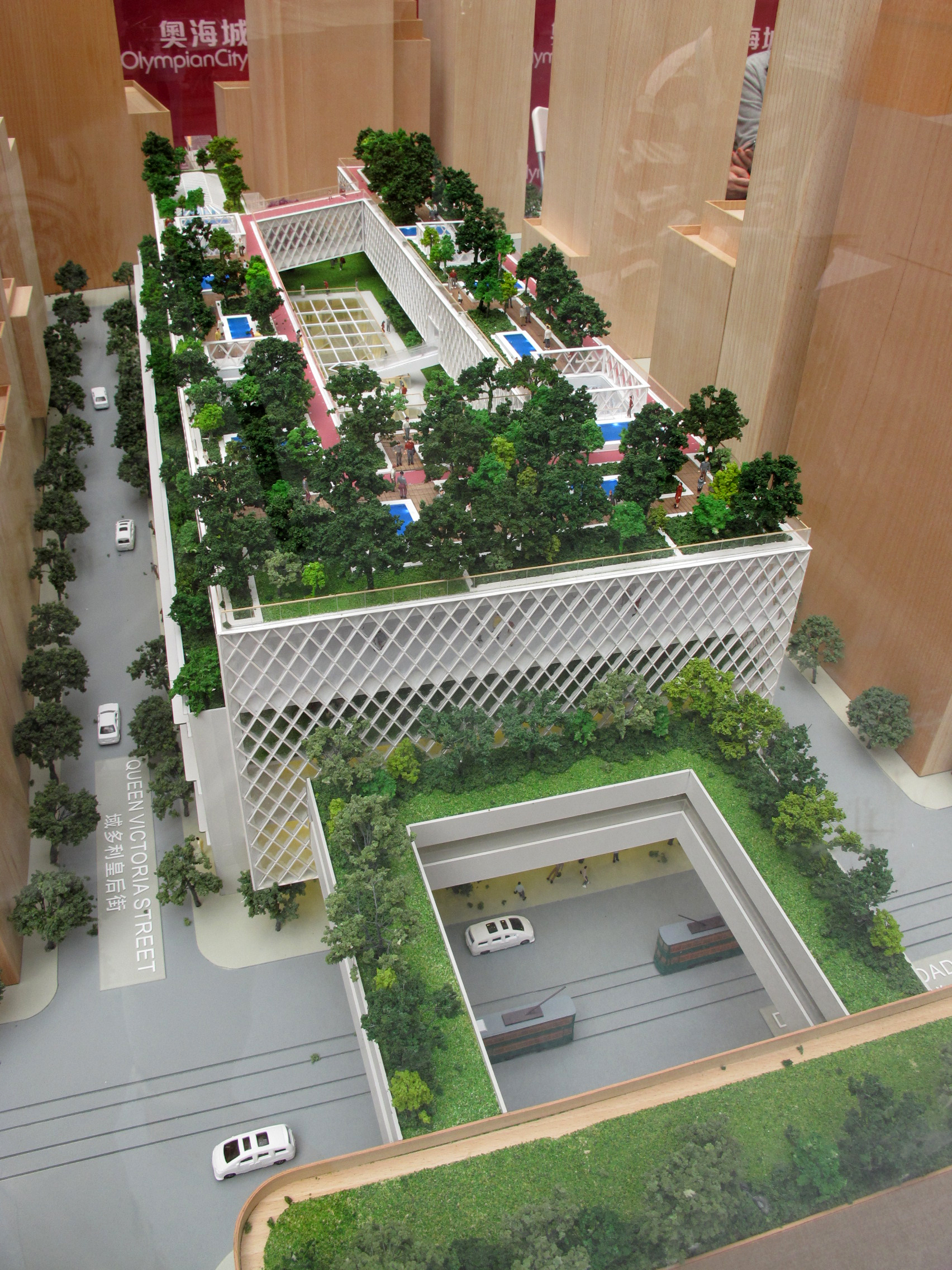 UFO & New Market Place by AGC Design